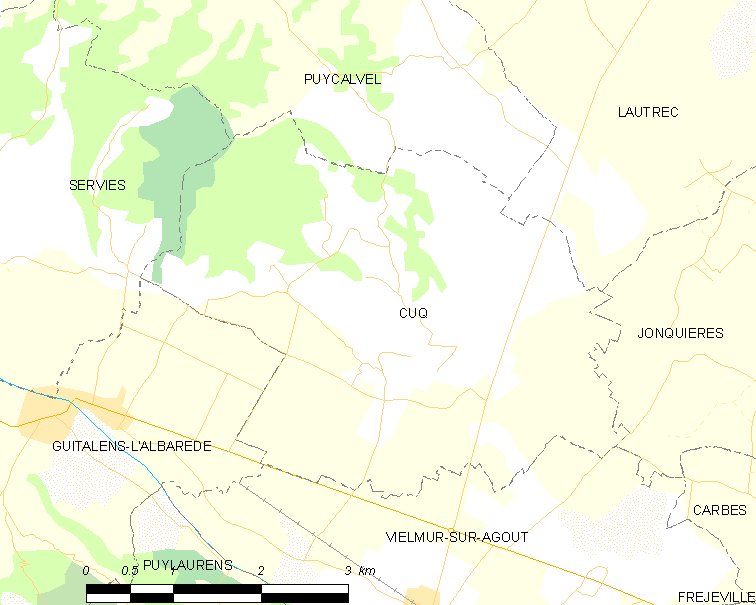 Map of French municipality Cuq